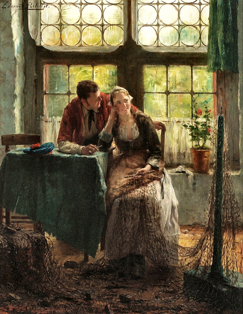 A welcome distraction